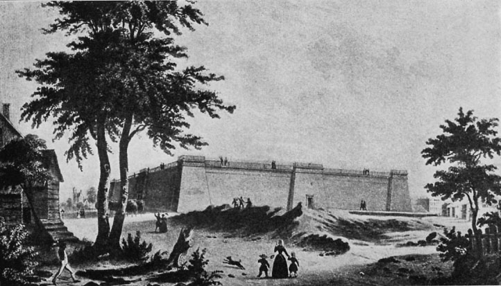 Croton Reservoir at 42nd St and 5th Ave NYC. Original Caption: Collection New York Historical Society The Croton Reservoir, erected in 1842, 5th Ave. and 42nd St.; now site of New York Public Library. From a very rare view by Bornet about 1850, showing the rural aspect of 5th Ave at this period. Valentine's Manual of Old New York / No. 7, page 151, Ed. Henry Collins Brown, Pub. Valentine's Manual Inc. copyright 1922